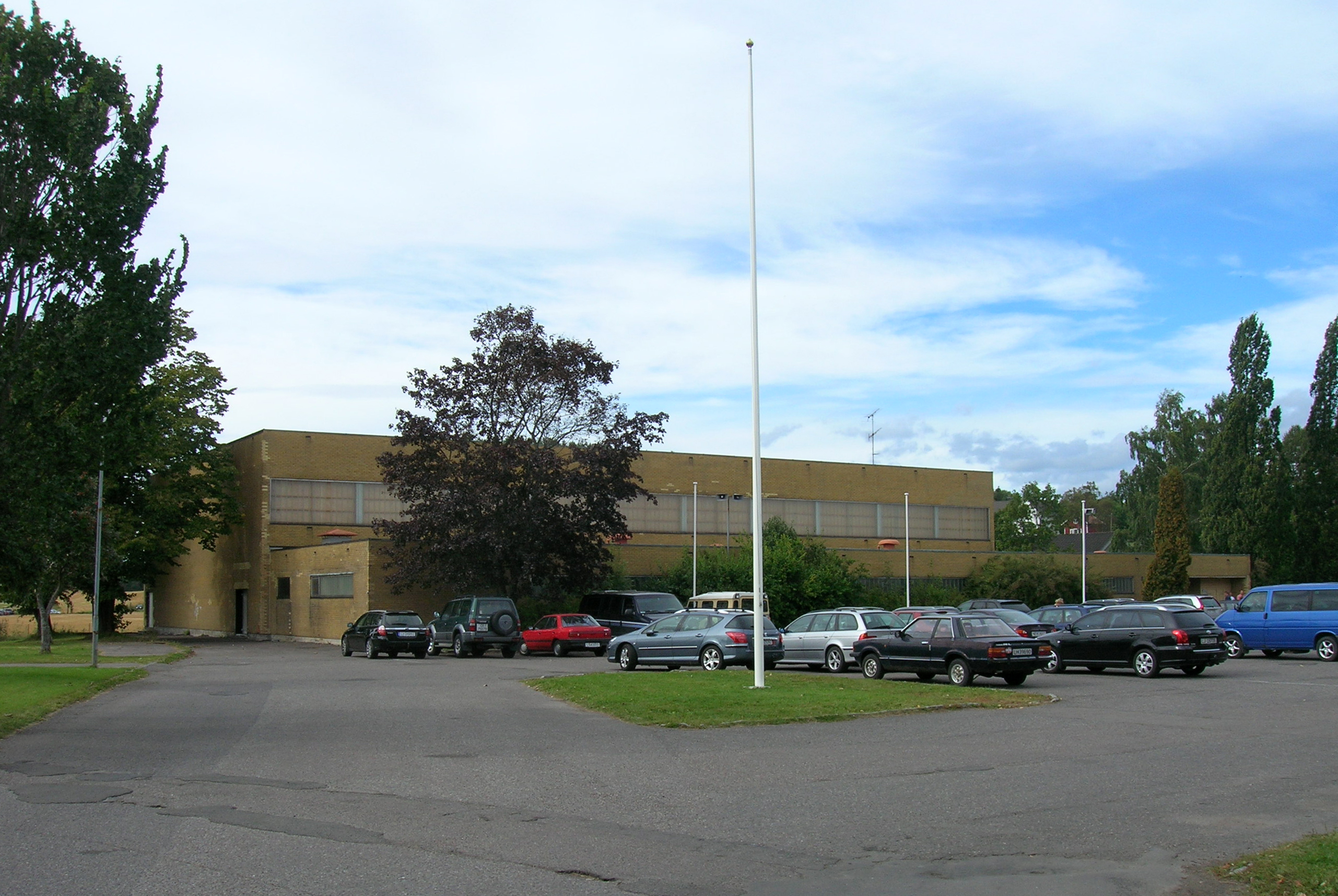 Wilhelmsenhallen, Nøtterøy